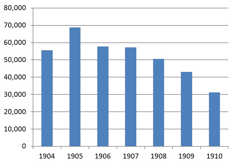 Sales of Klondike Brewery, 1904-10, in gallons; using data from Burley, David V.; Will, Michael H. (2002).